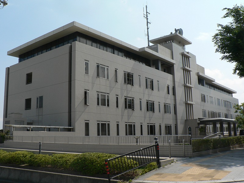 Kanan-town office, Osaka, Japan （河南町役場の庁舎）